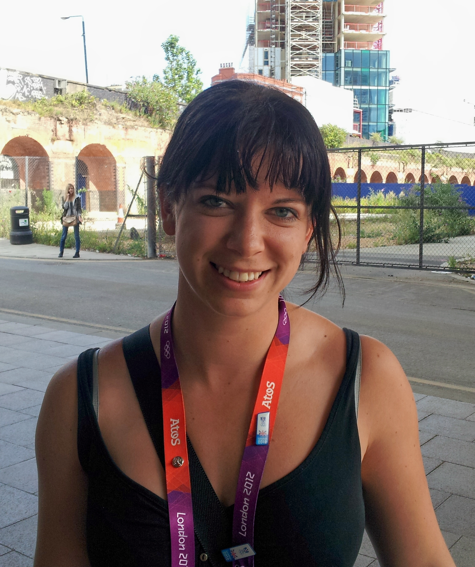 Austrian javelin thrower Elisabeth Eberl, taken at The London 2012 Summer Olympic Games